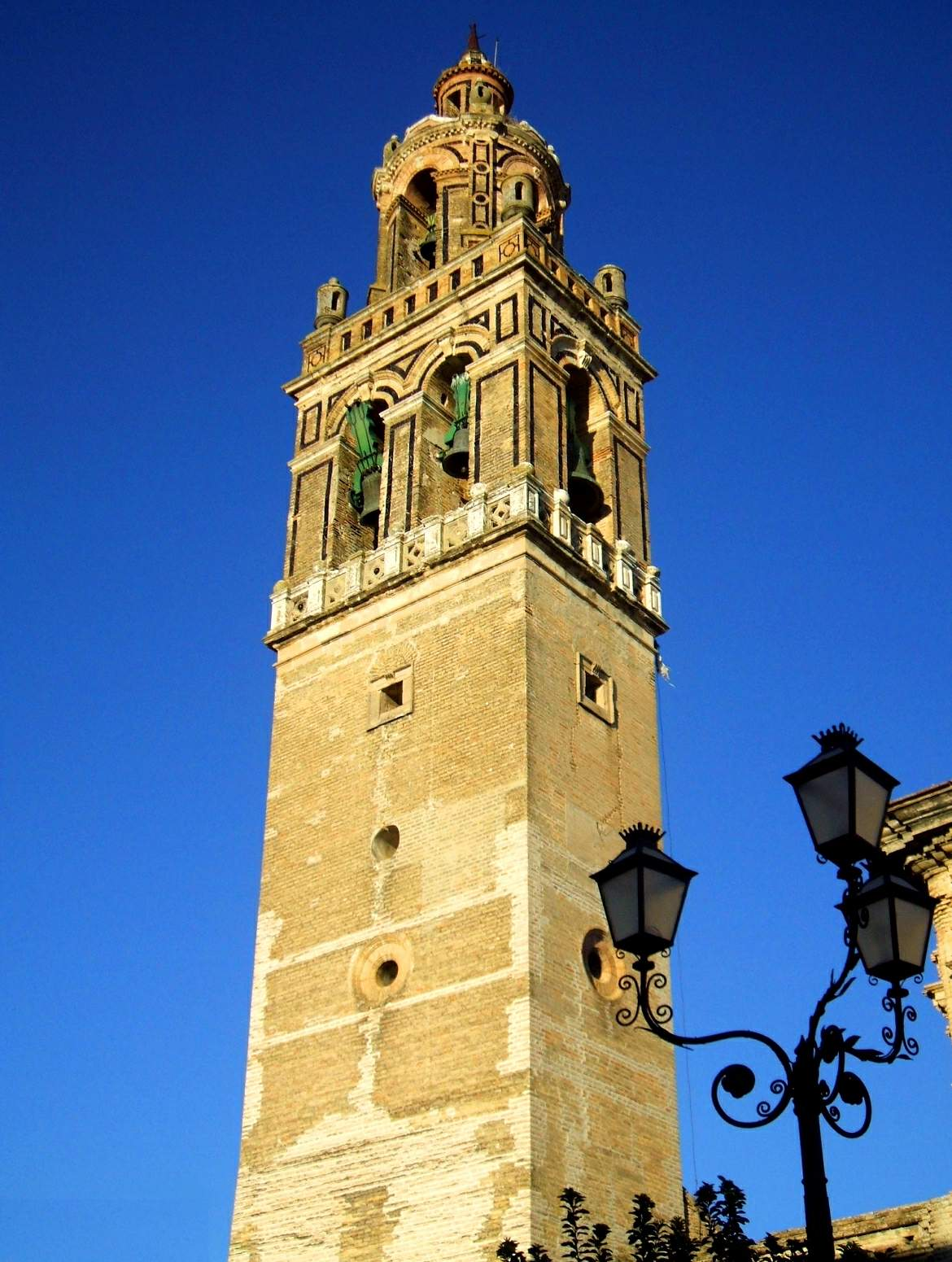 Iglesia de Santa Cruz, Écija